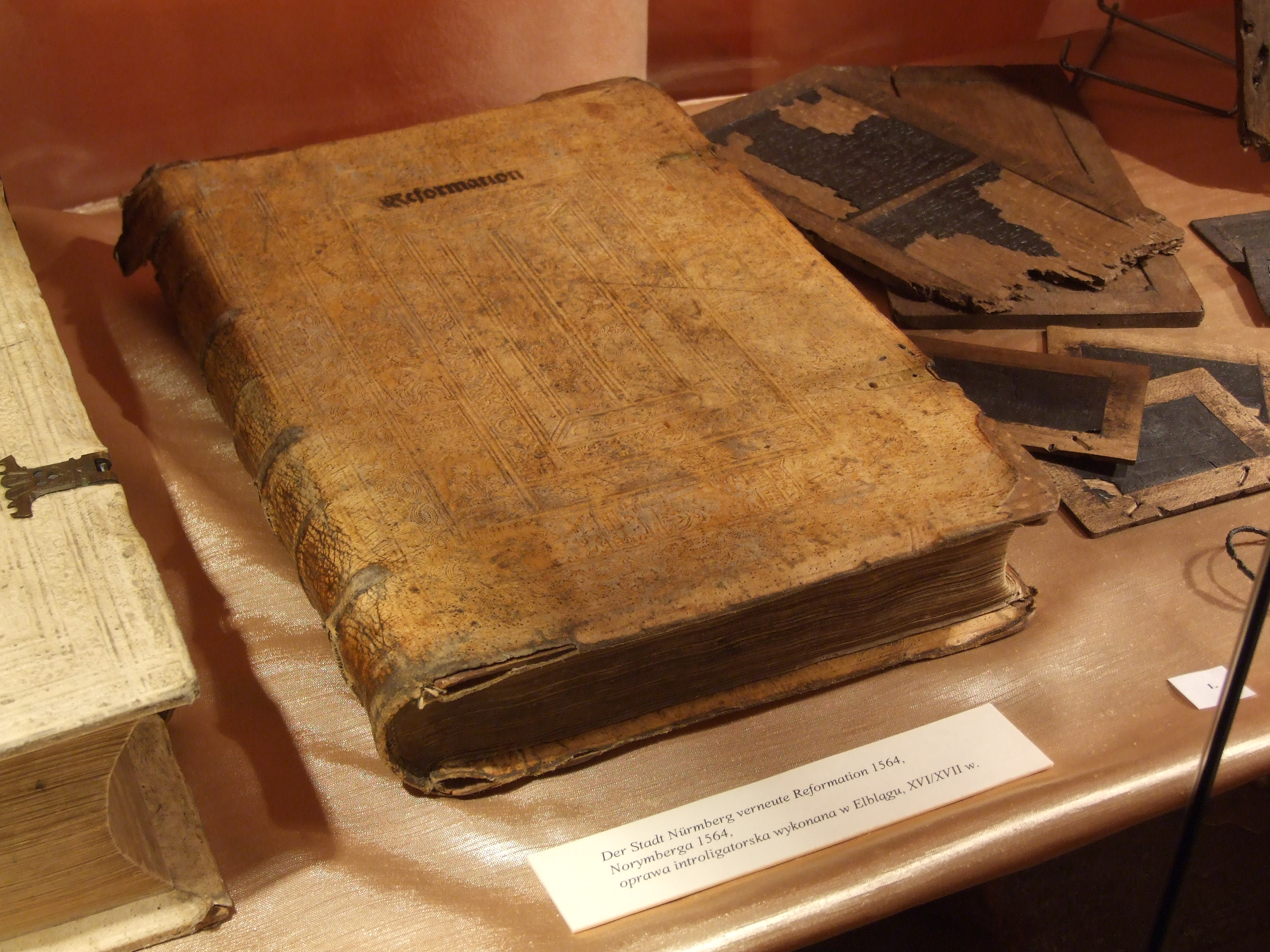 Renewed Reformation book in Elbląg - permanent exhibition in local city museum, Poland